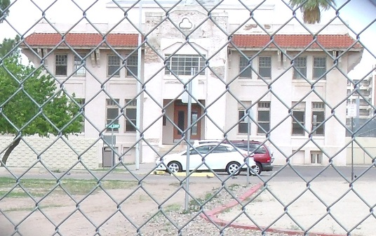 The Arizona State Hospital Building, also known as Mahoney Administration Building, was built in 1900 and is located at 2500 E. Van Buren St., Phoenix, Arizona. It was listed in the National Register of Historic Places on July 15, 2009, reference #09000510.